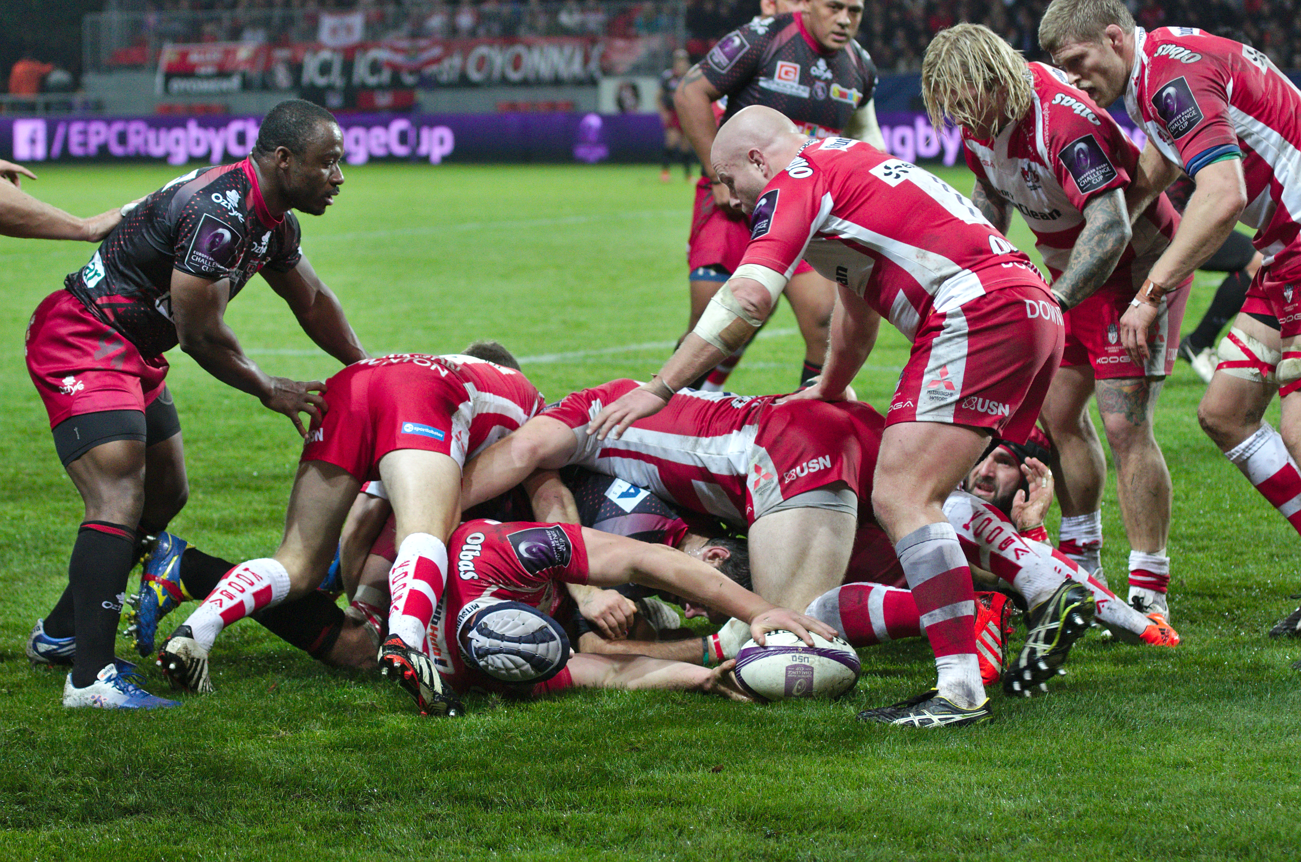 USO-Gloucester Rugby - 20141025 - Ruck